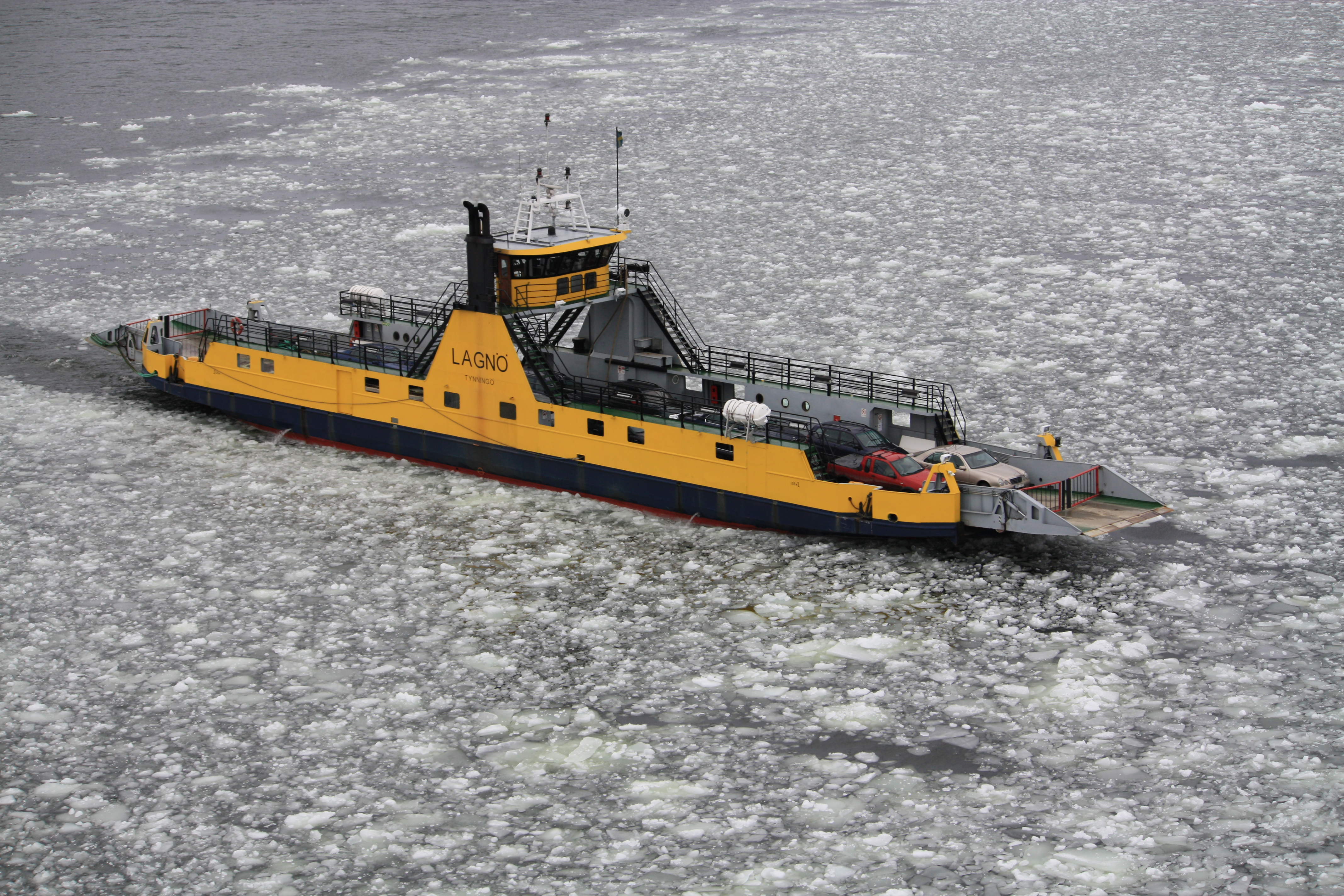 Ferry Lagnö from Tynningö towards Norra Lagnö in the Archipelago of Stockholm.